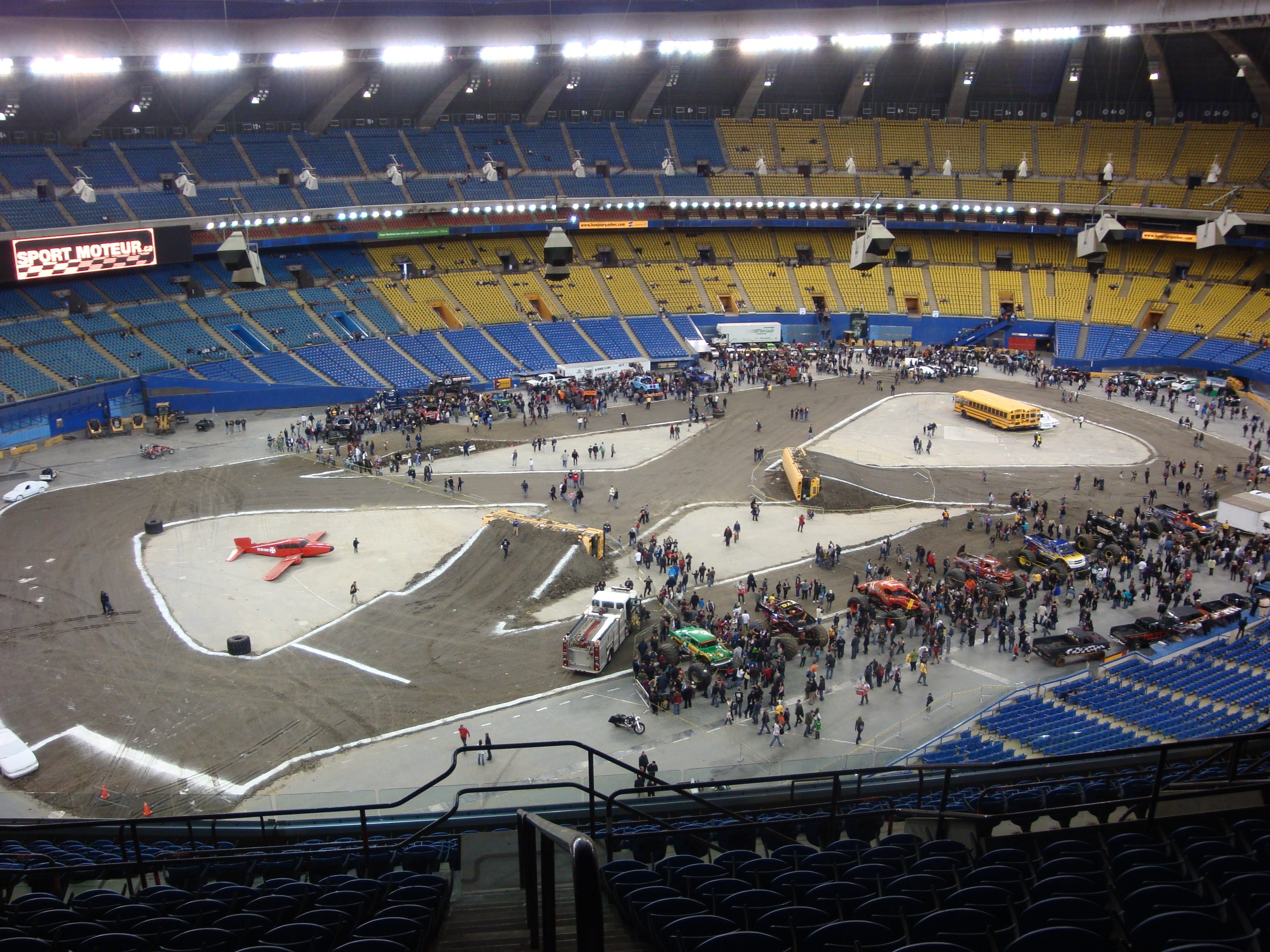 Track inside Olympic Stadium for the Monster Spectacular